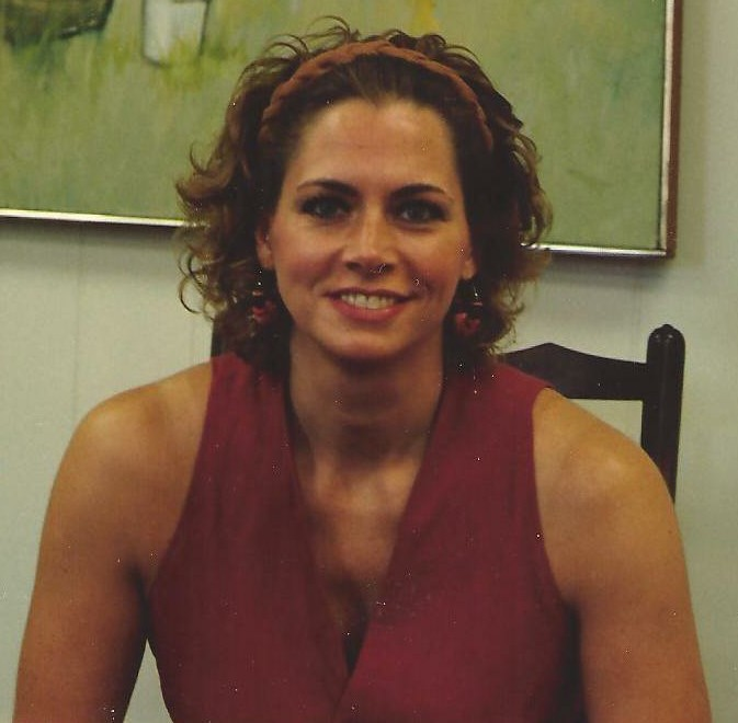 American women's weightlifting champion Karyn Marshall.